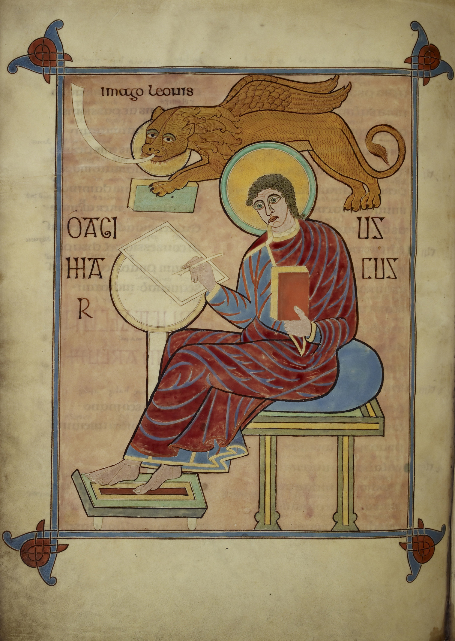 St. Mark [Whole folio] St.Mark, seated, with his symbol, a winged lion blowing a trumpet and carrying a book